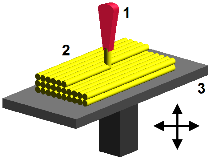 Fused deposition modelling (FDM), a method of rapid prototyping: 1 - nozzle ejecting molten material (plastic), 2 - deposited material (modelled part), 3 - controlled movable table